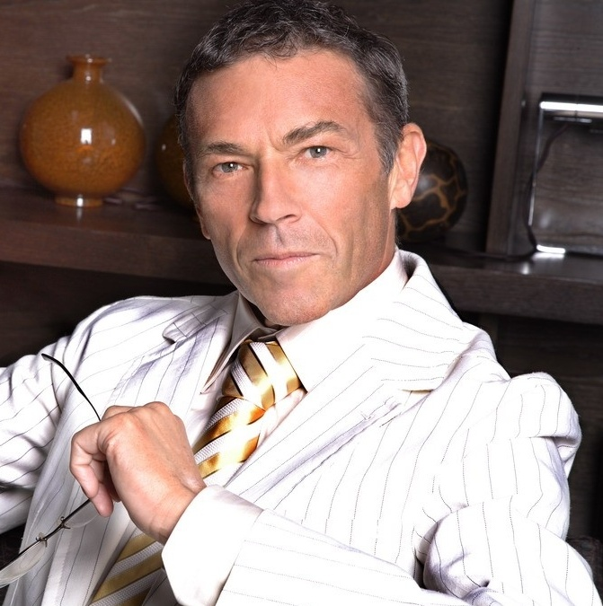 Jörg Haider, Landeshauptmann von Kärnten / Governor of Carinthia, Pressefoto / Press Photo Sep. 2007